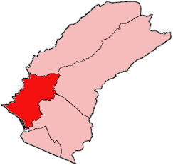 Map of Grand Cape Mount County, Liberia showing Tewor District; created with the GIMP. Made by User:Acntx.